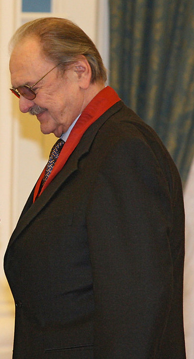 Yury Yakovlev, Russian actor